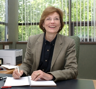 Gail Vance Civille